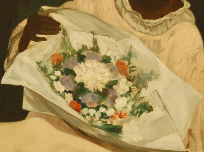 Detail of Manet's Olympia. (I created it from the original image)